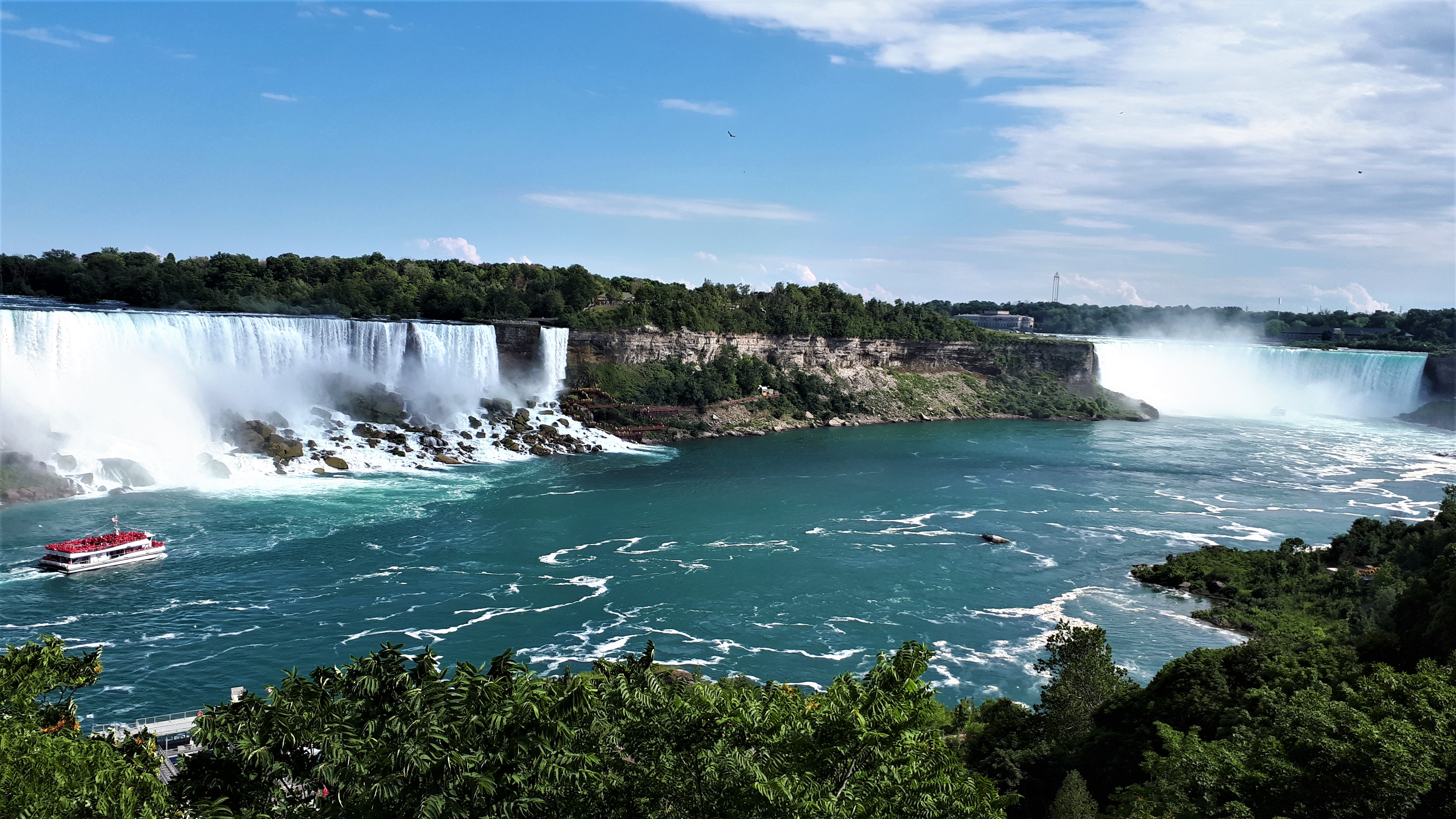 Niagara Falls- American Falls and Horseshoe Falls